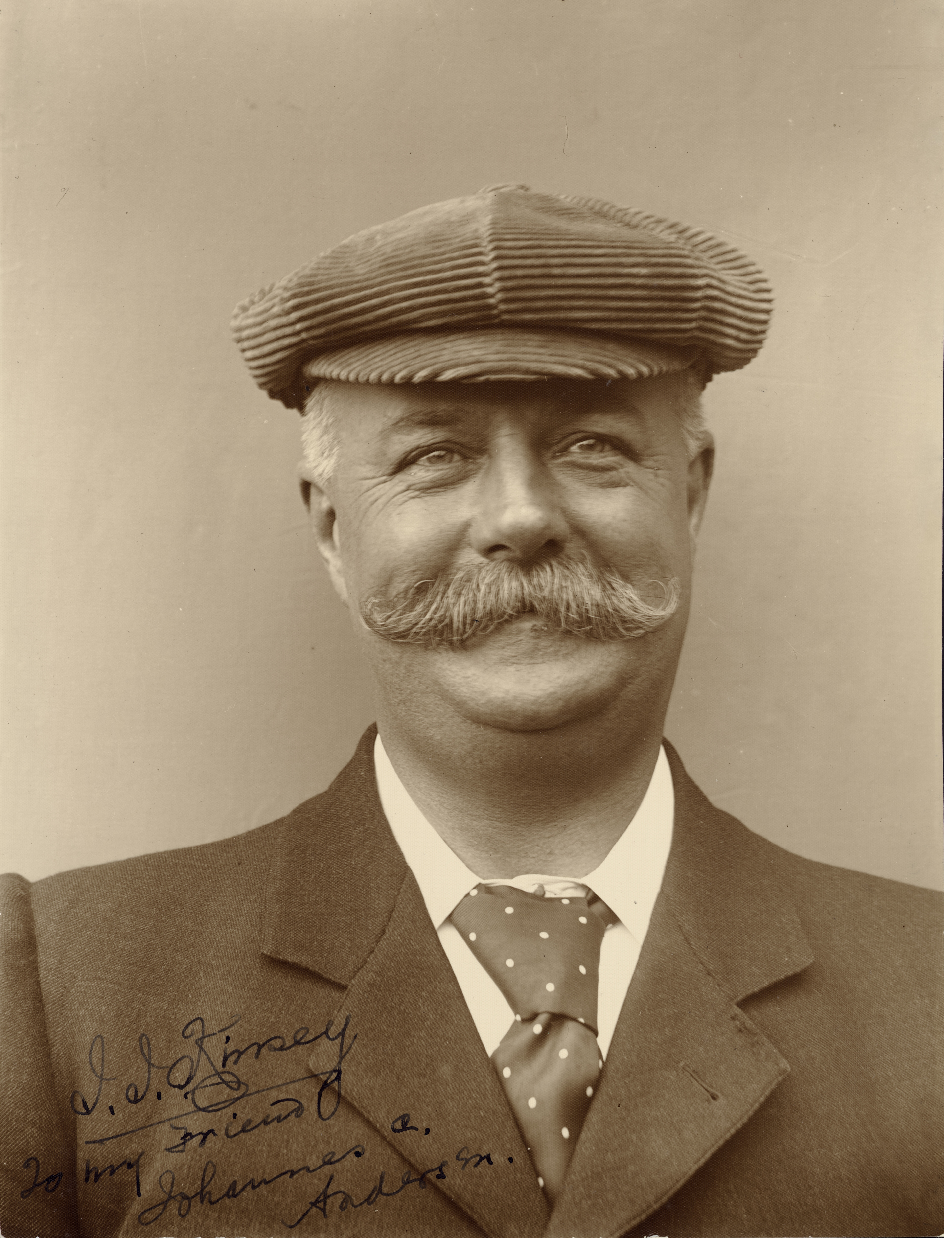 Sir Joseph Kinsey taken by Lady Kinsey in circa 1910. Inscription reads: "J J Kinsey To my friend Johannes C Andersen"